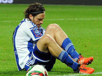 Gustav Svensson, IFK Göteborg